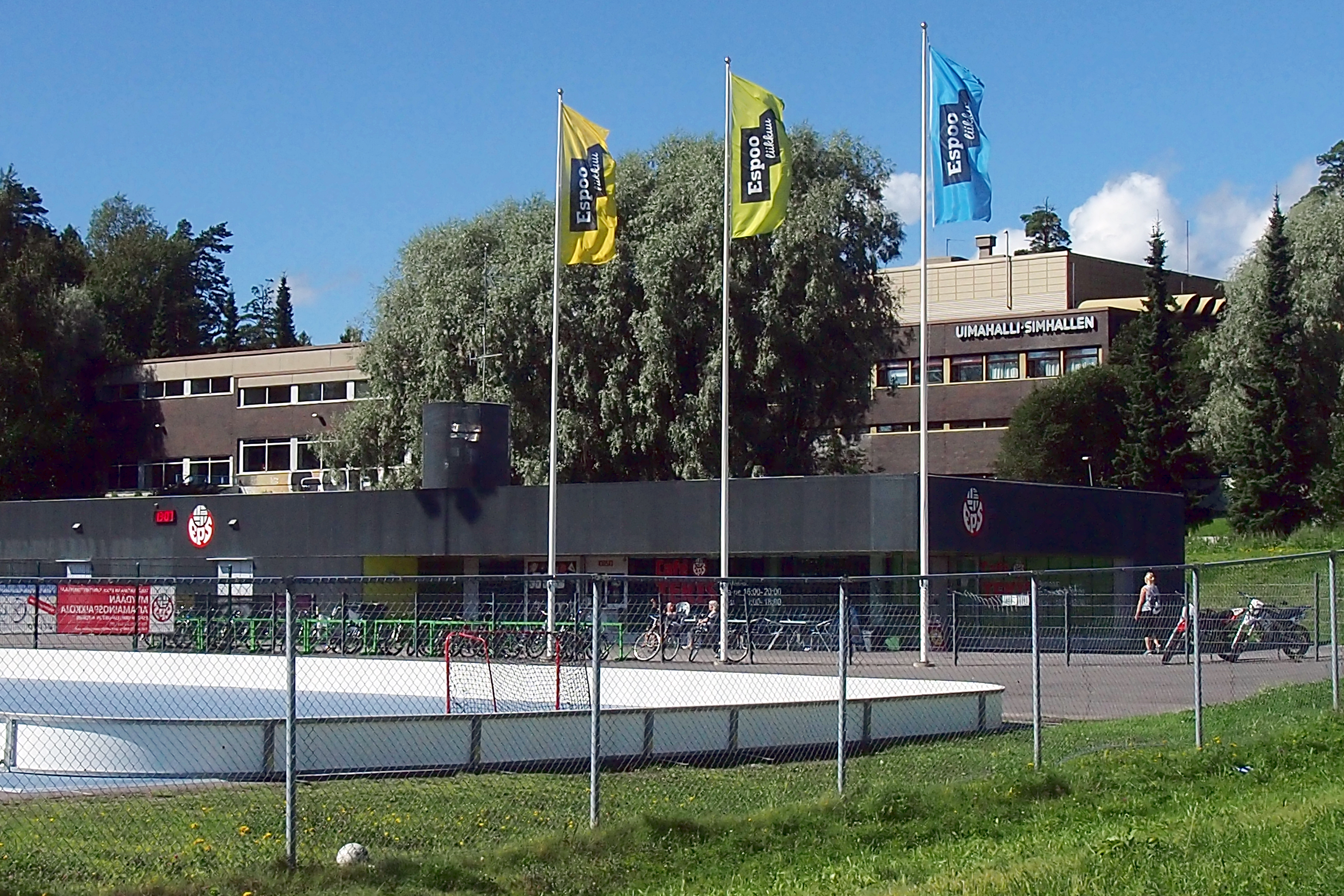 The swimming hall "Espoonlahden uimahalli" in Espoonlahti, Espoo, ca 18 kilometers west of Downtown Helsinki, Finland.